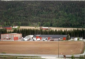 Nor-Ka AS sitt anlegg i Sigdal